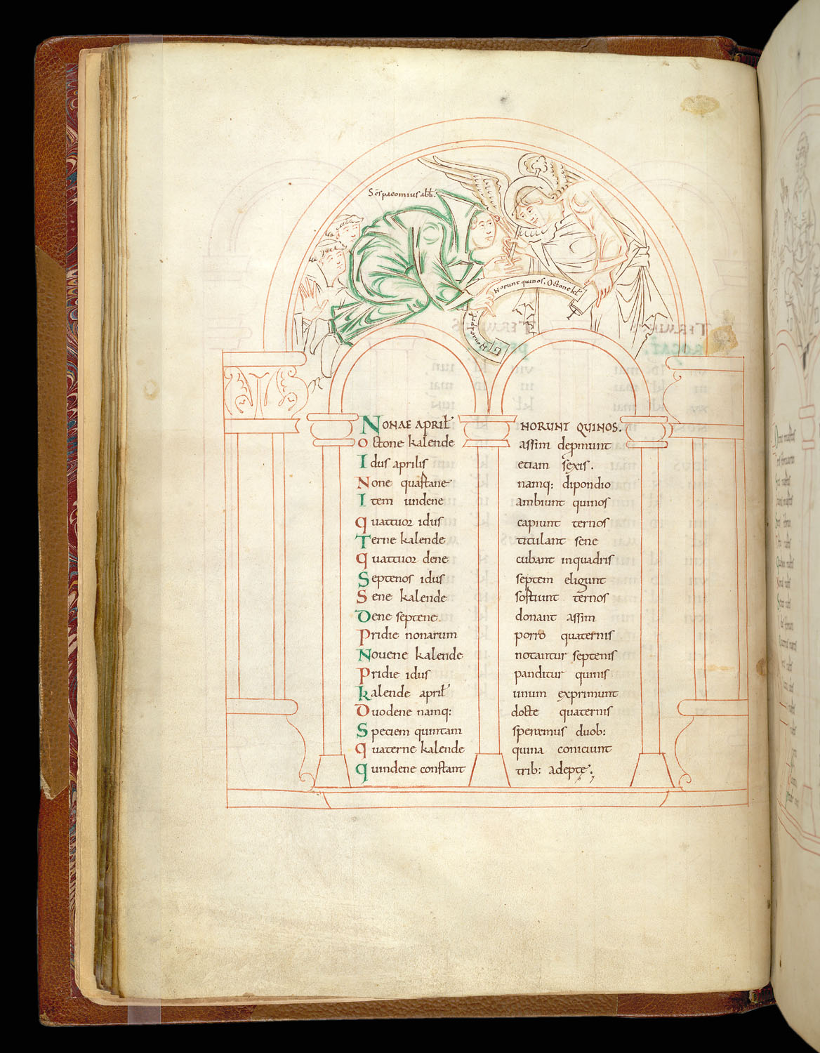 Arundel PsalterF9v Easter table